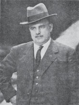 IMARO revolutionary/ies